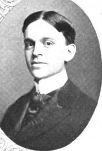 Portrait of accountant in the New York department of public instruction Lewis K. Rockefeller